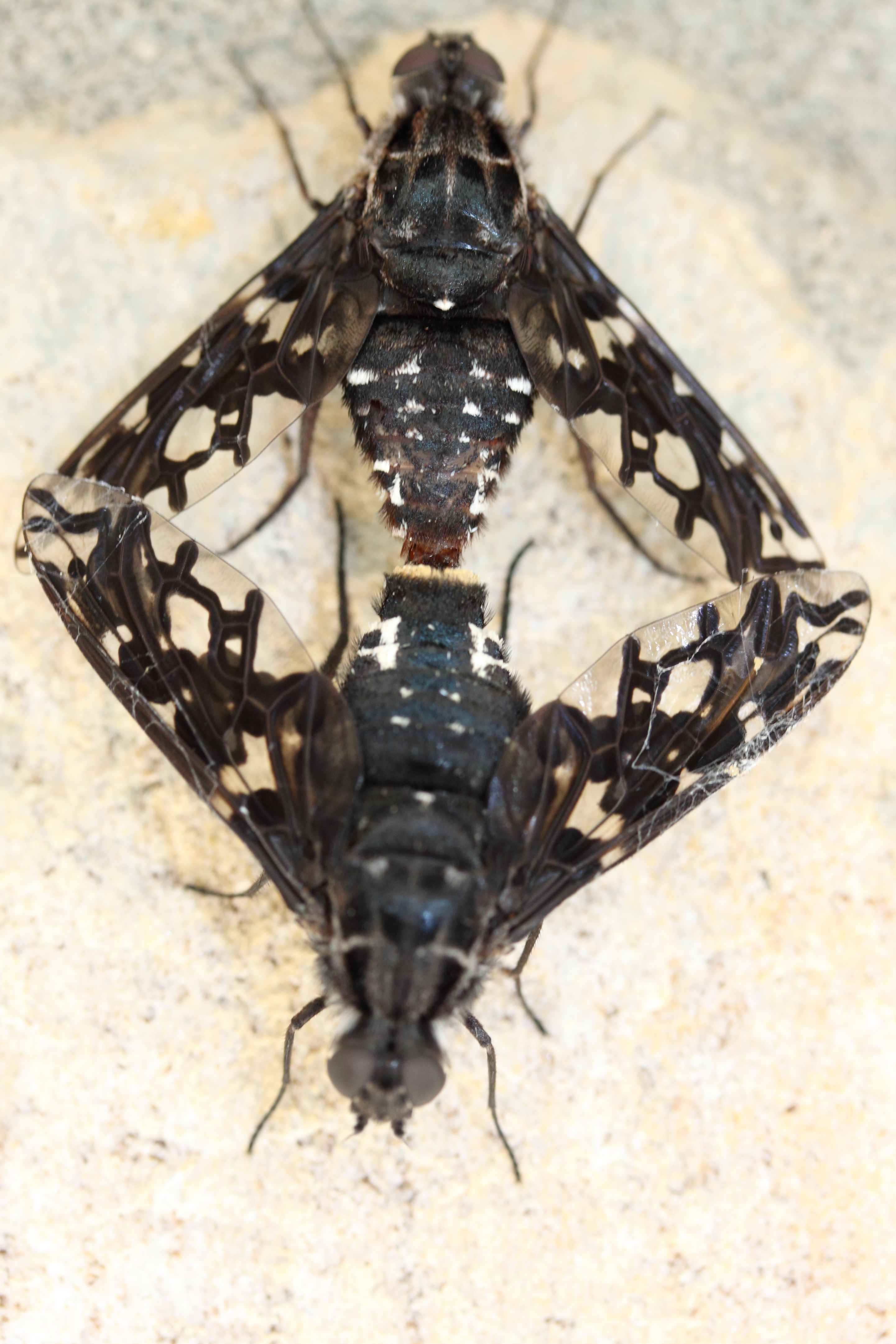 Bombyliidae (Xenox tigrinus) mating; photo taken in NC in July 2013